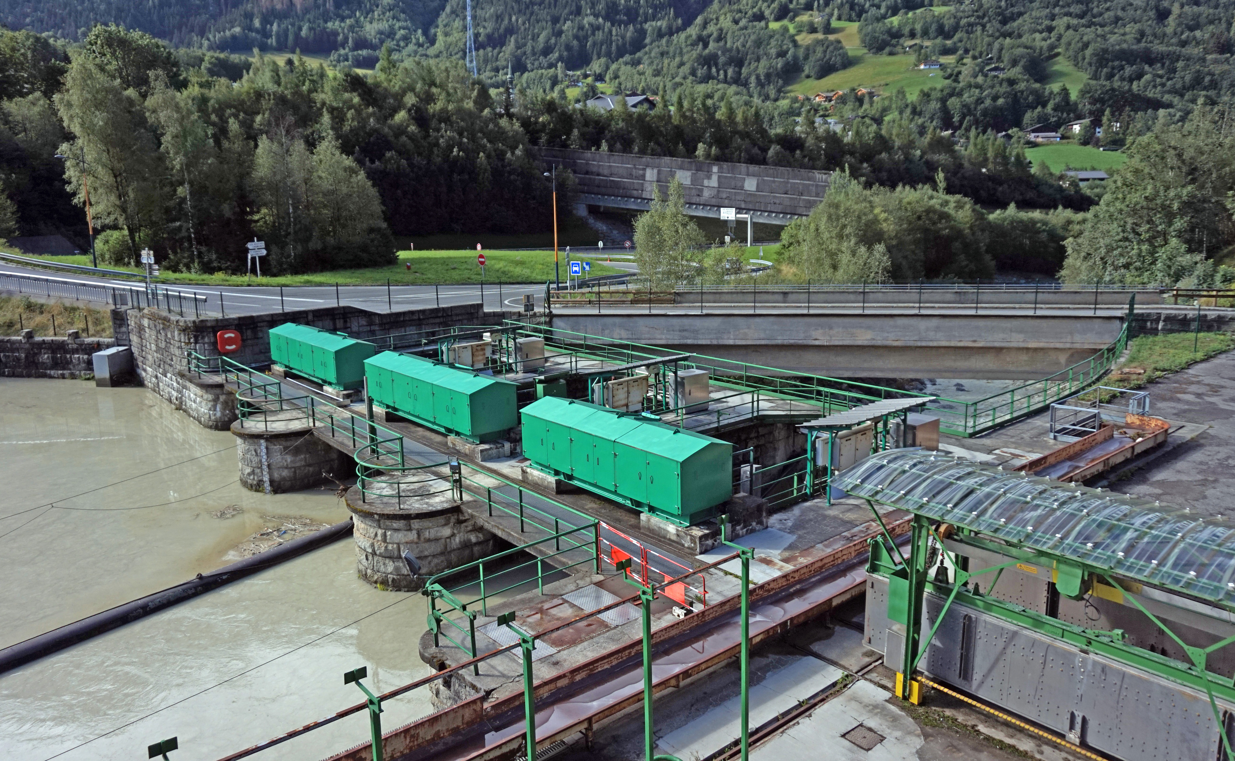 Arve river in Les Houches.This photograph was taken with a Sony ILCE-5000